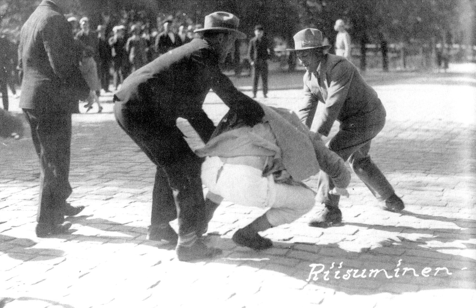 The Lapua Movement assaults red officer Eino Nieminen in the Vaasa riot on 4 June 1930.